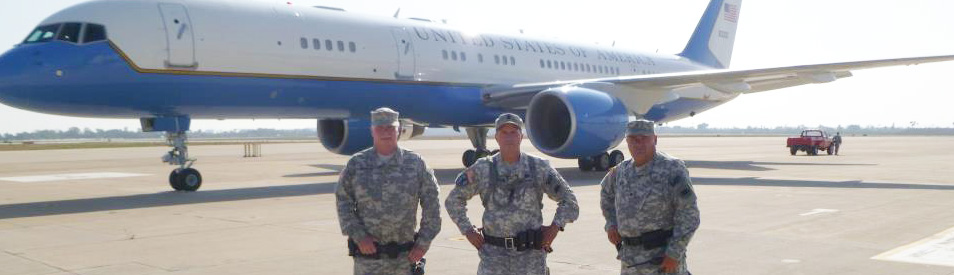 protective security